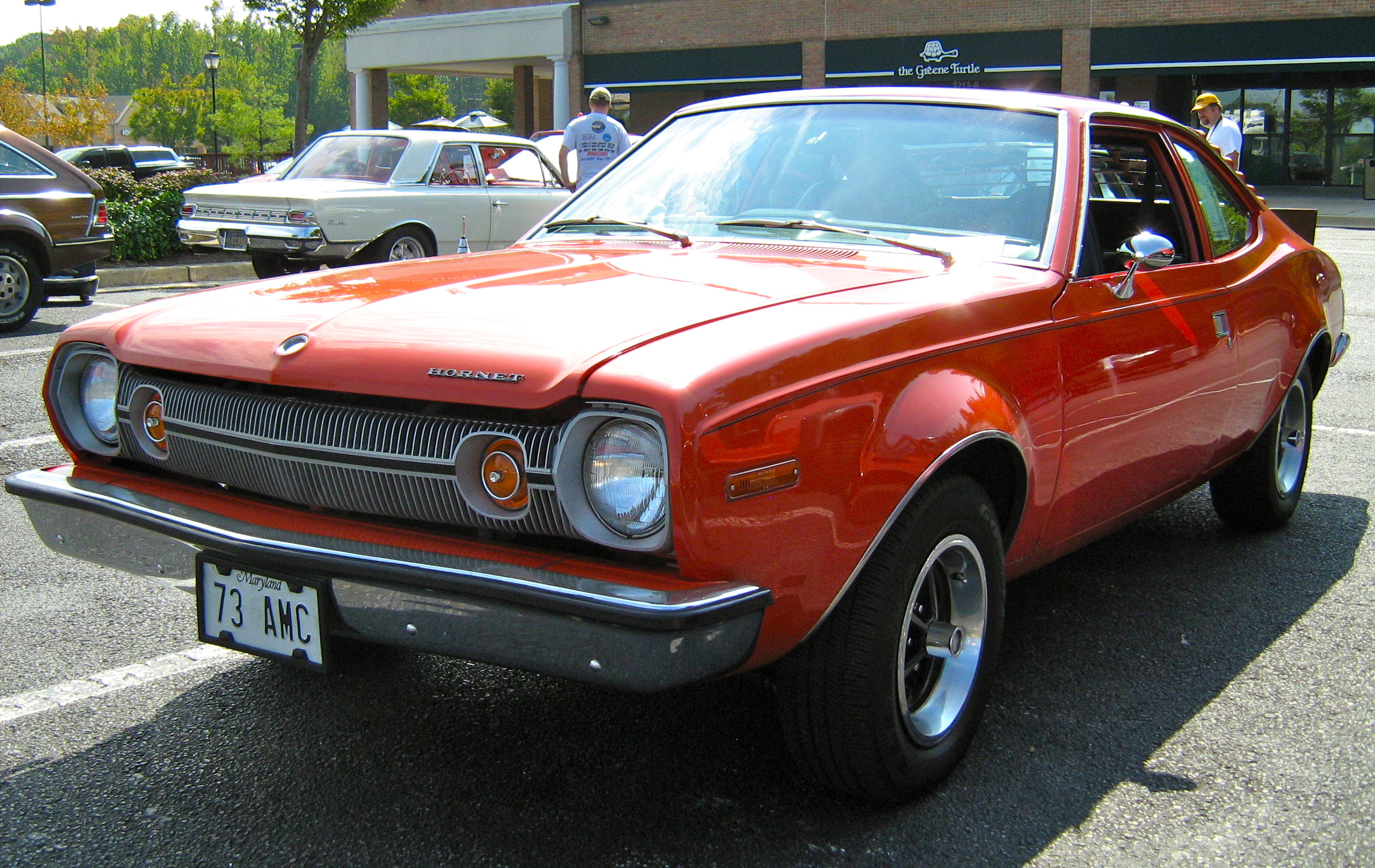 1973 AMC Hornet hatchback, a compact car made by American Motors Corporation (AMC). This body style was introduced for the 1973 model year. This is an original factory equipped car with a 304 cubic inch (5.0 L) V8 engine and manual floor shift transmission. This car is finished in "Trans Am Red" (paint code D-7). Left front side view of this sporty red AMC Hornet.